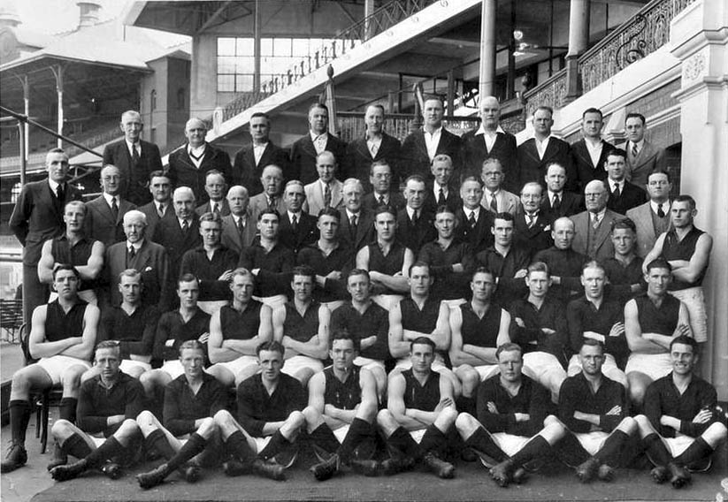 Team of Melbourne FC, premiers